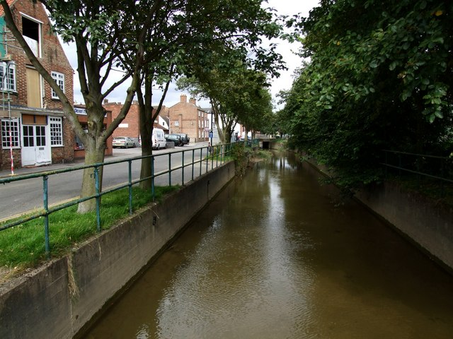 South Basin of the Horncastle Canal, Horncastle Looking towards the Bull Ring.